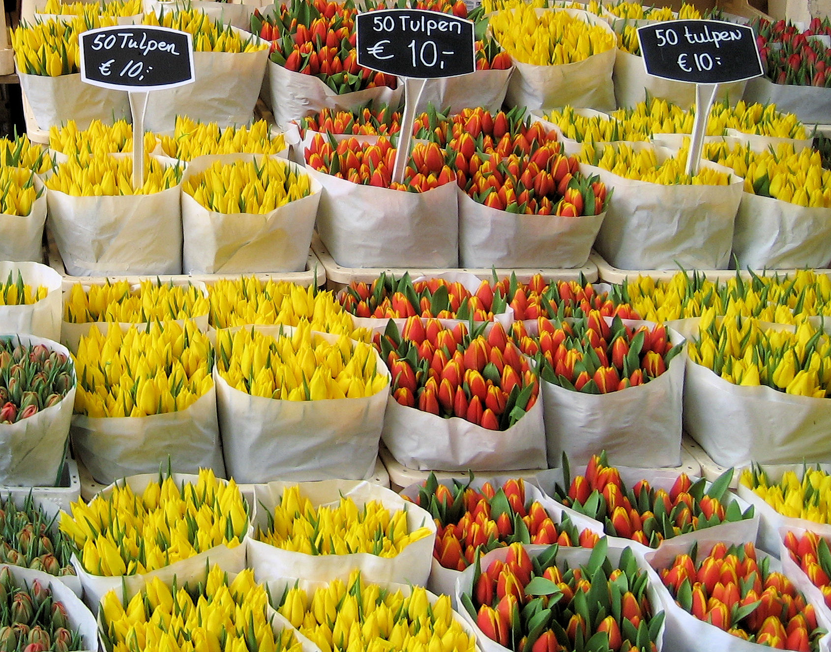 The Flower Market on the Singel Canal.